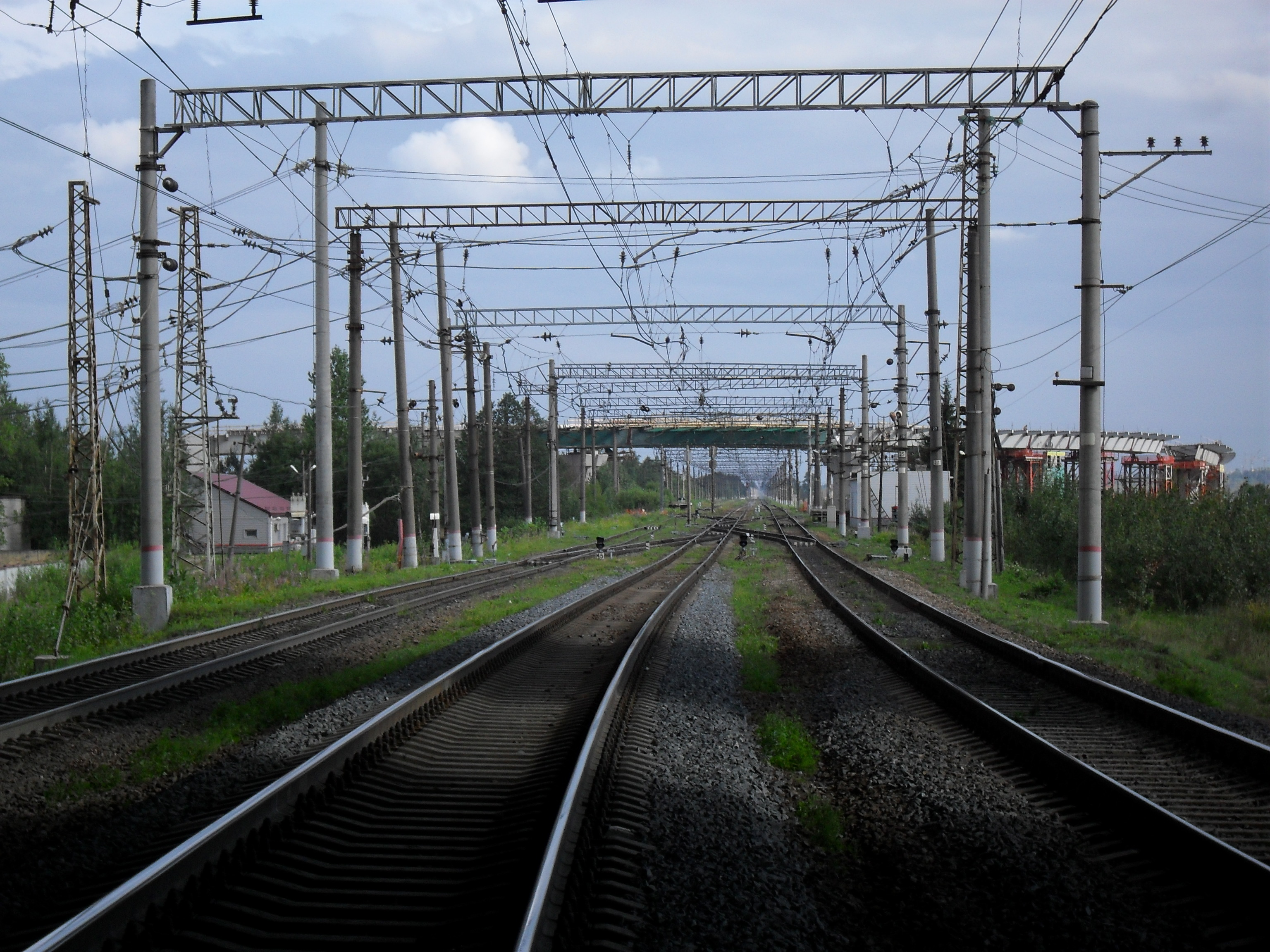 Shosseynaya